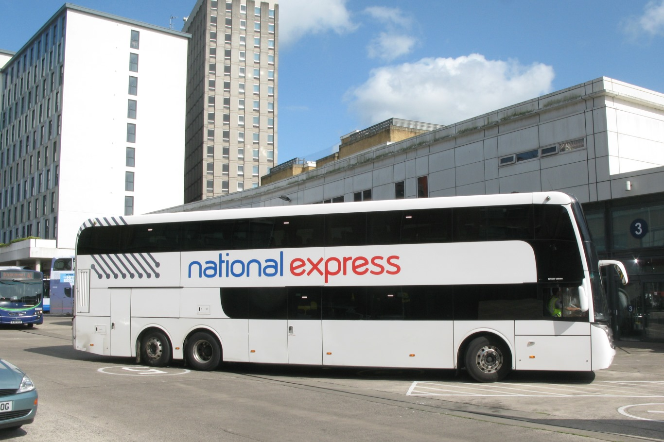 A Caetano Boa Vista double deck coach (registration BV66WPN) loading passengers at Bristol Coach Station for a journey to London.